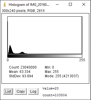 Histograma da image após aplicar Threshold. Fonte: Próprio autor